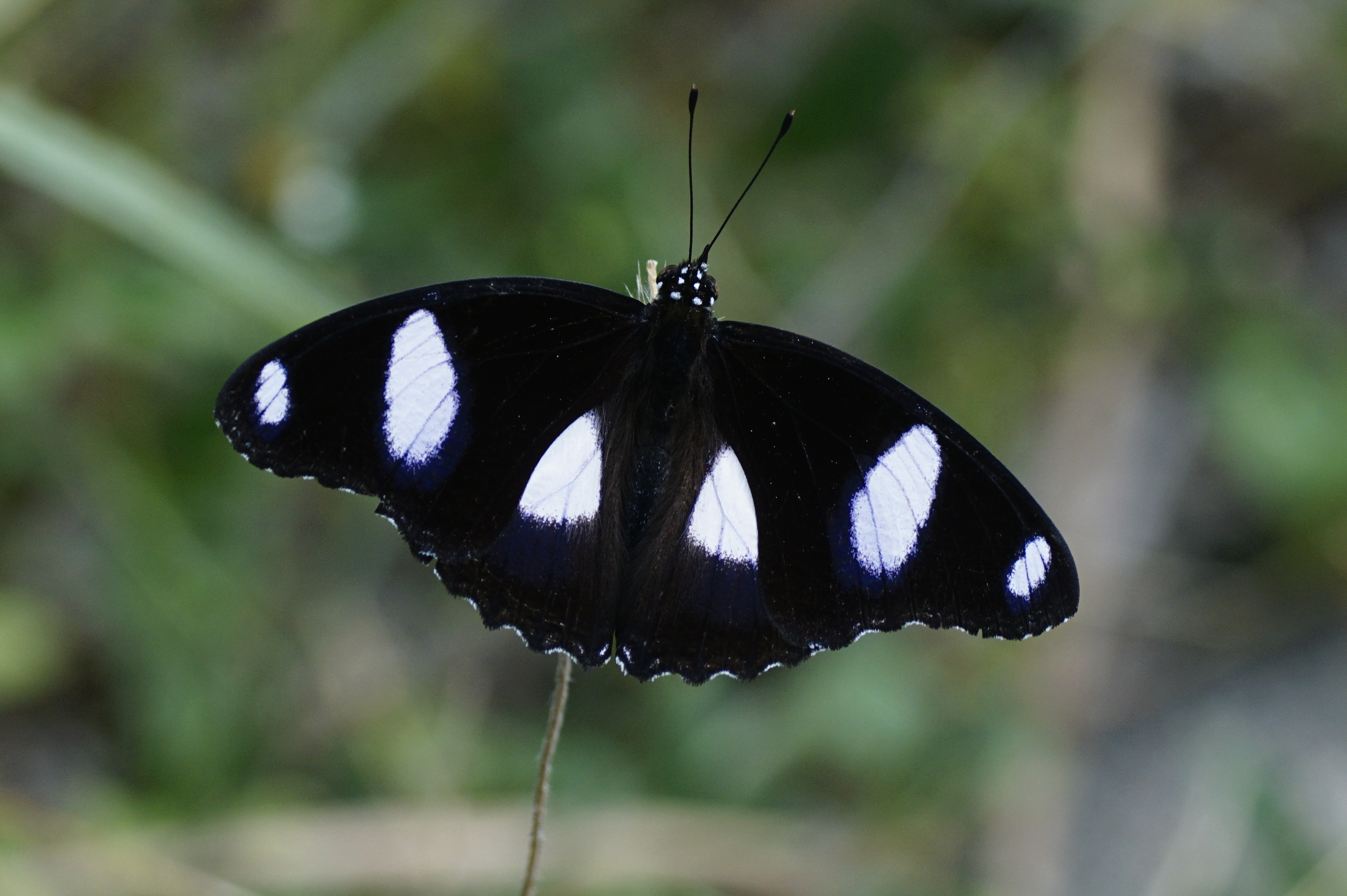 Hypolimnas misippus (male)